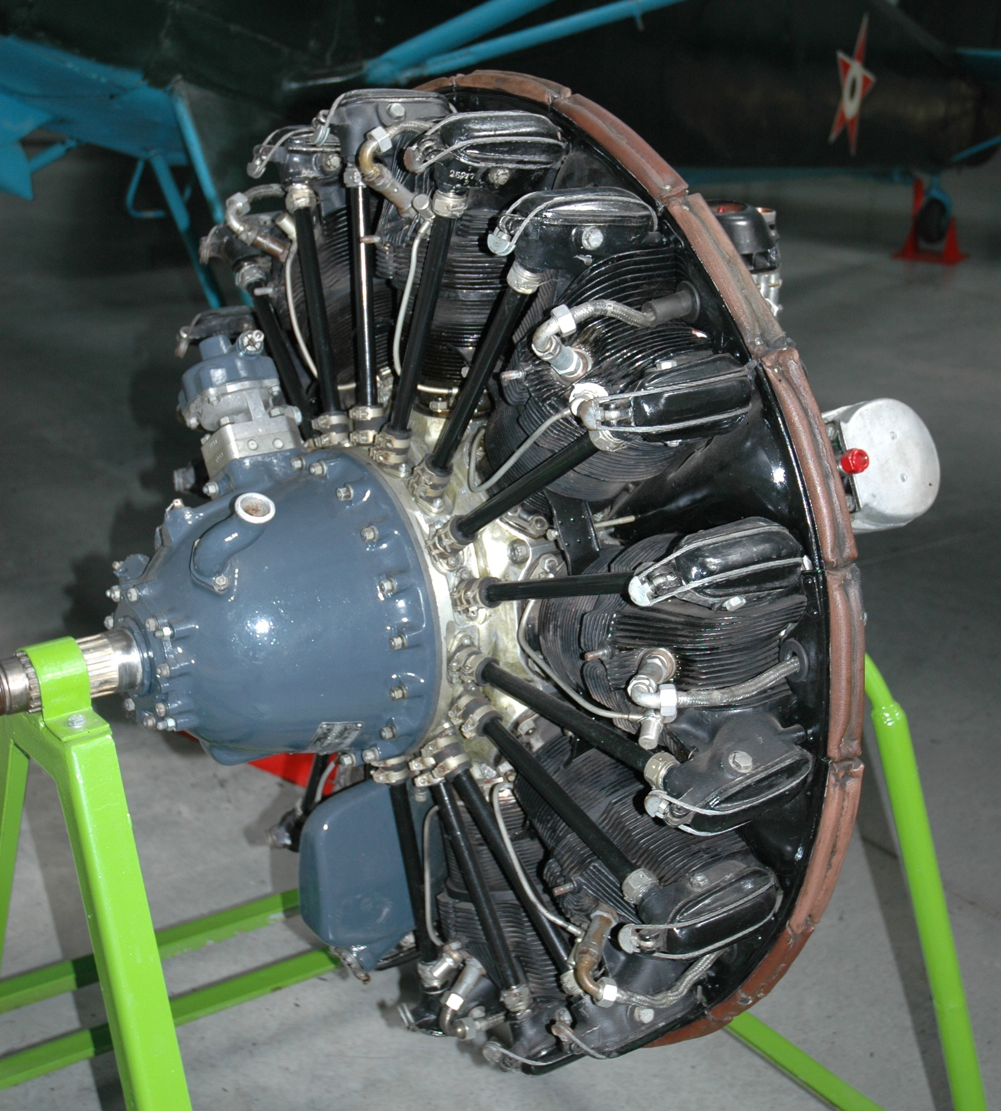 Ivchenko AI-14R Soviet radial piston engine (displayed at the Hungarian Aviation Museum in Szolnok)